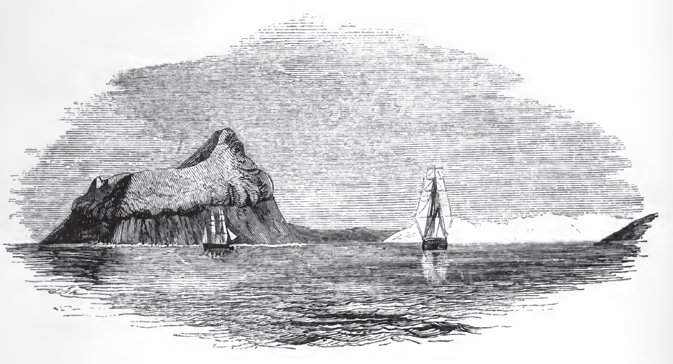 Cockburn Island 1843 with HMS Terror snd HMS Erebus